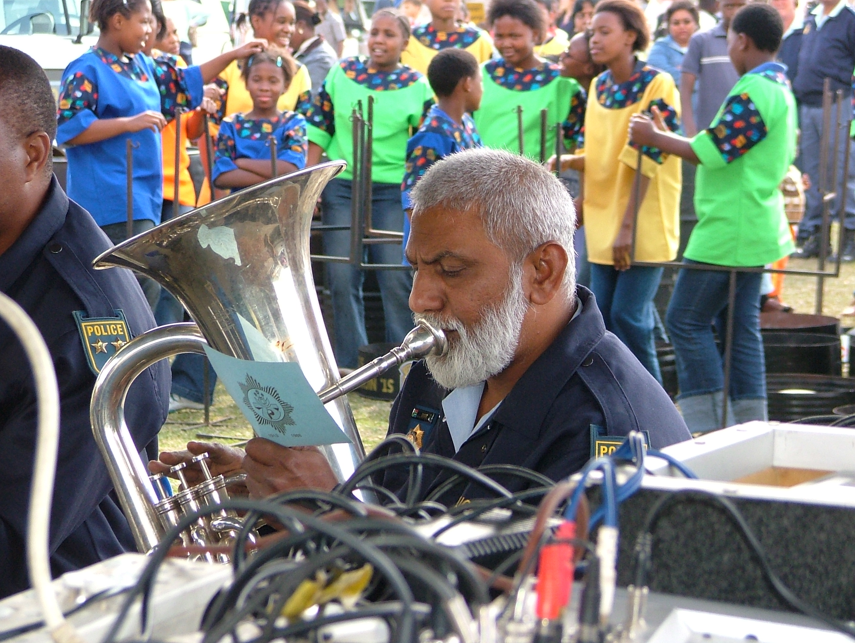 A police-band tubaist finds his instrument to readily accommodate closer inspection of miniature music